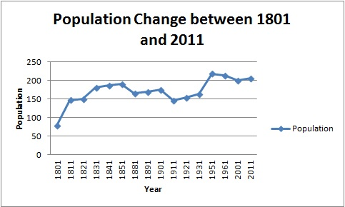 This graph shows the changes in population form Census Data between 1801 and 2011 for Ponsonby, Cumbria.